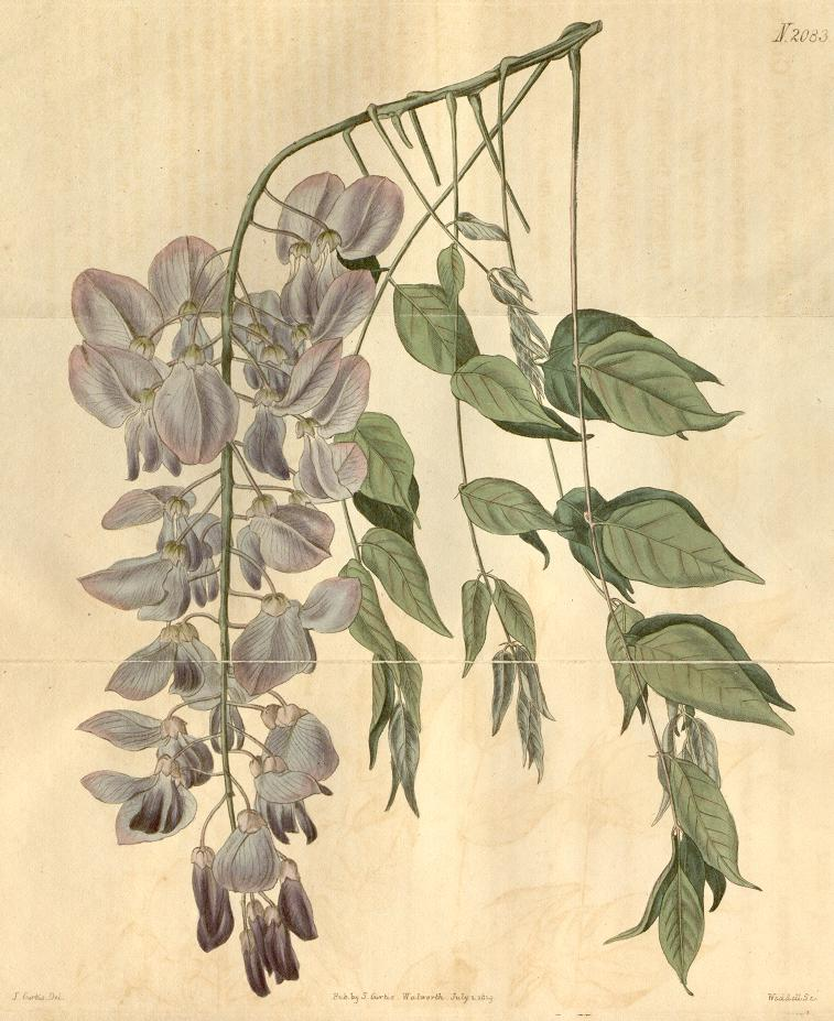 Engraving of Wisteria sinensis, from Curtis's Botanical Magazine vol. 46.